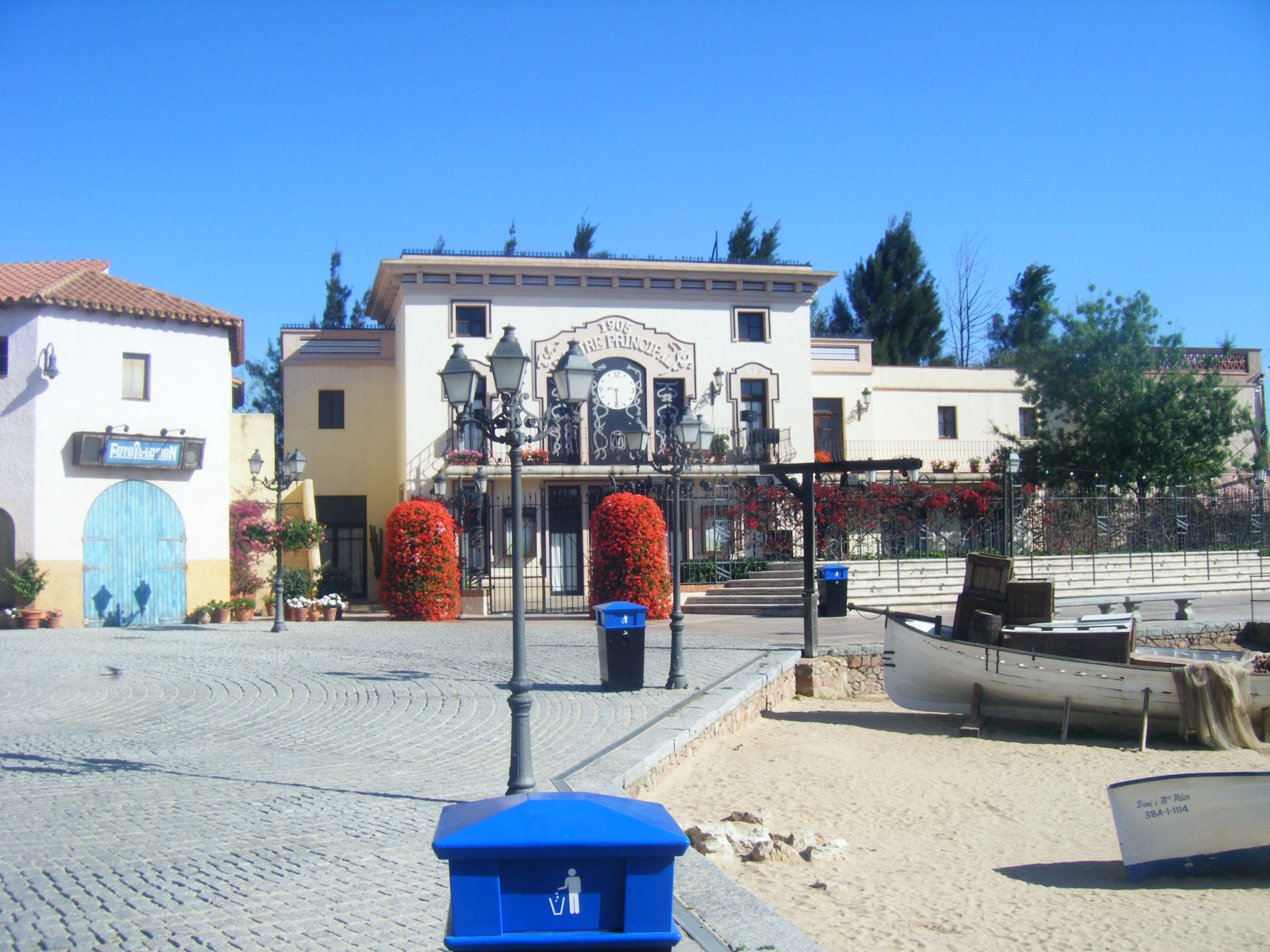 The entrance to Port Aventura is a mediterranean village, complete with a sandy beach and fishing boat. The buildings house administration offices and various gift shops.